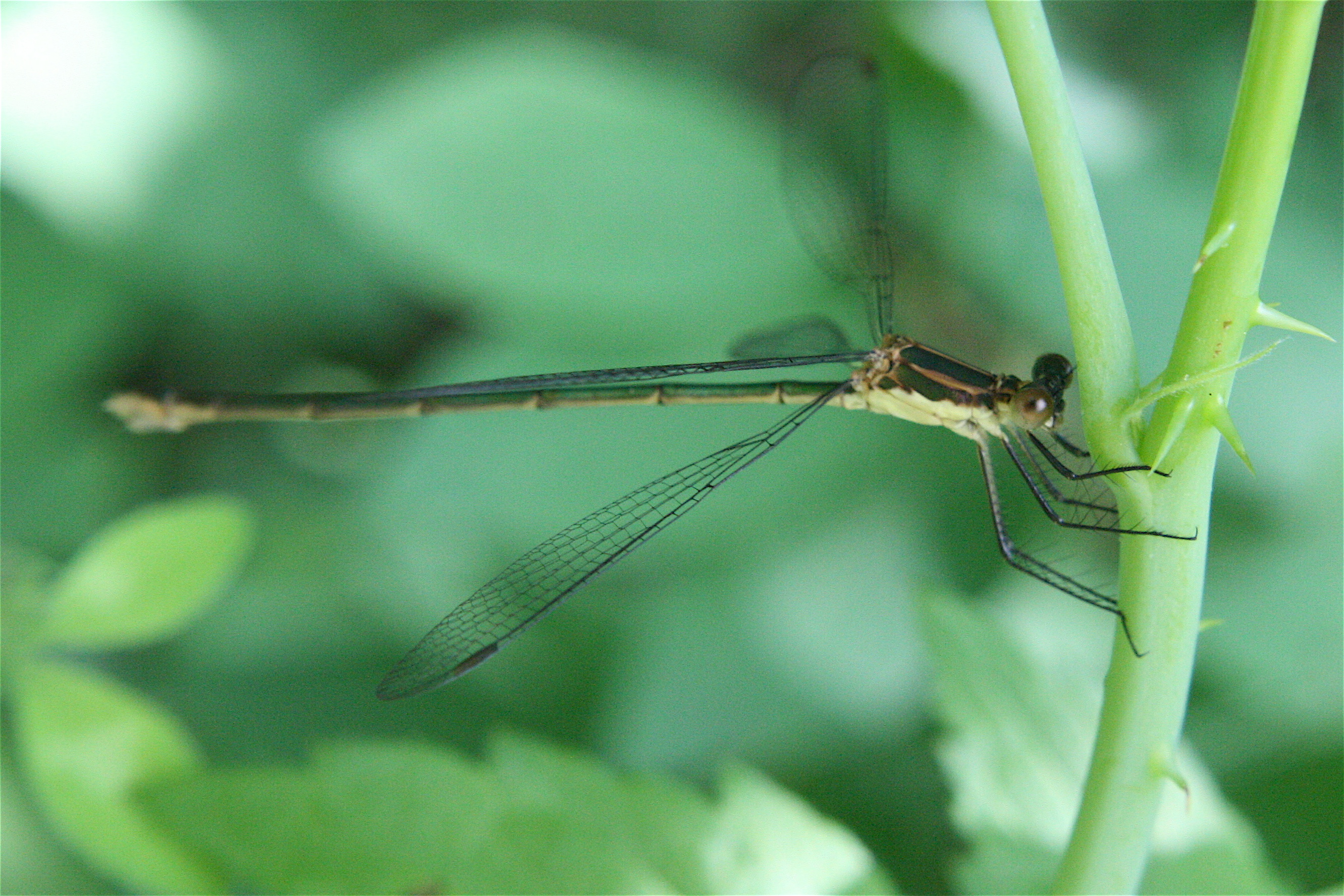 Swamp Spreadwing (Lestes vigilax) in Fort Custer Recreation Area which is located within Augusta, MI.